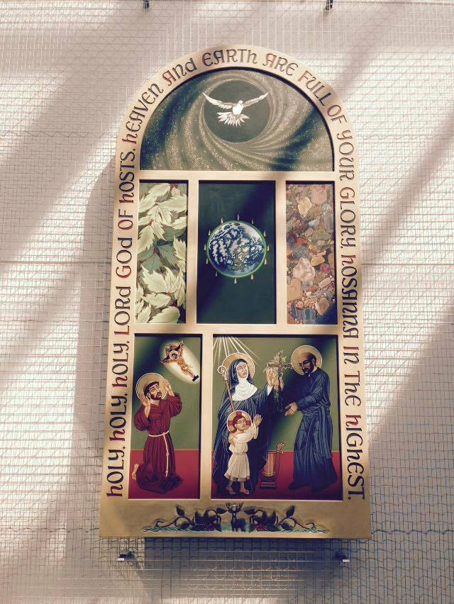 "Viriditas - Finding God in All Things" icon by William Hart McNichols